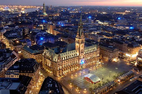 Hamburger Rathaus, City hall of Hamburg, Germany